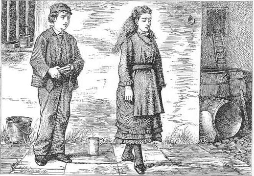 Great Expectations, chapter 8, Estella's first encounter with PIp at Satis House, by F.A. Fraser.